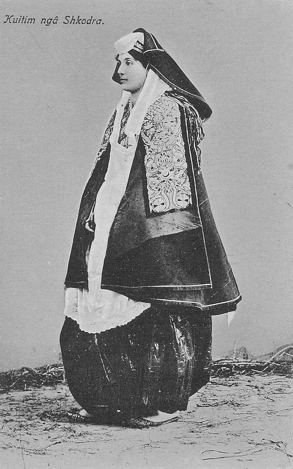 Postcard from Kolë Idromeno: Woman from Shkodra in catholic dress